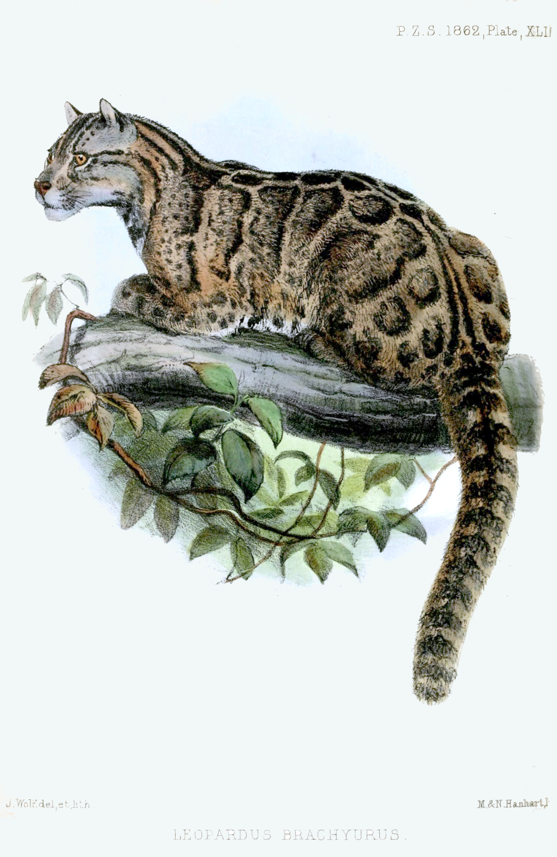 Leopardus brachyurus = Neofelis nebulosa brachyura